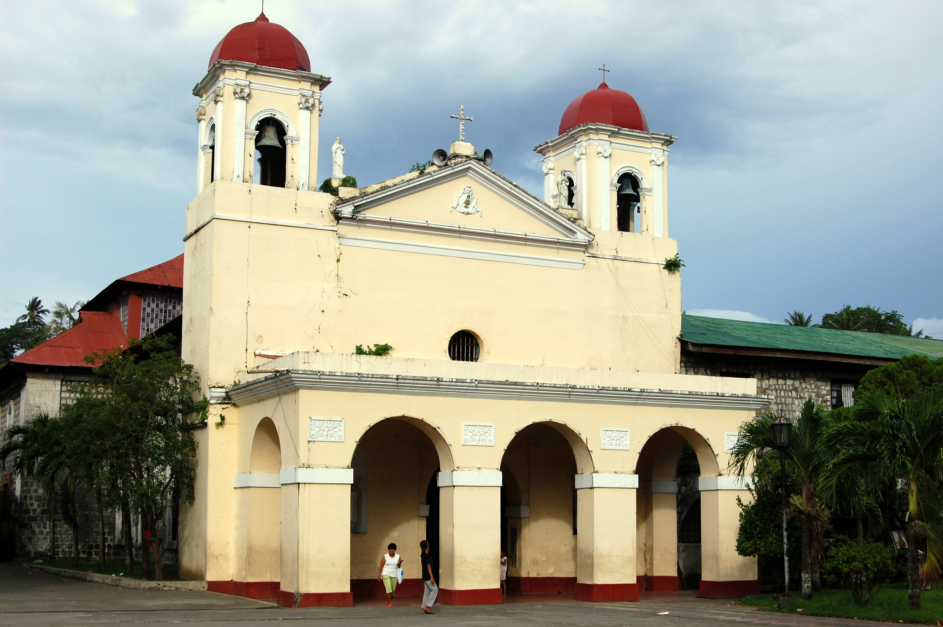 Shrine of Our Lady of Caysasay in Taal, Batangas